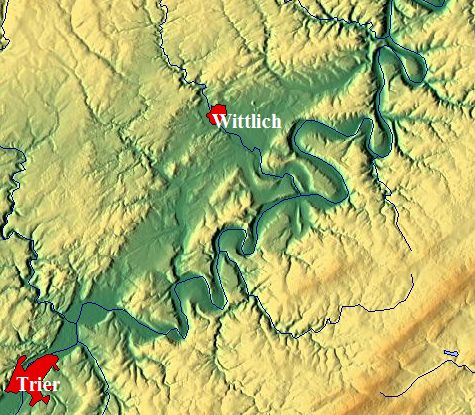 Map showing the Wittlicher Senke